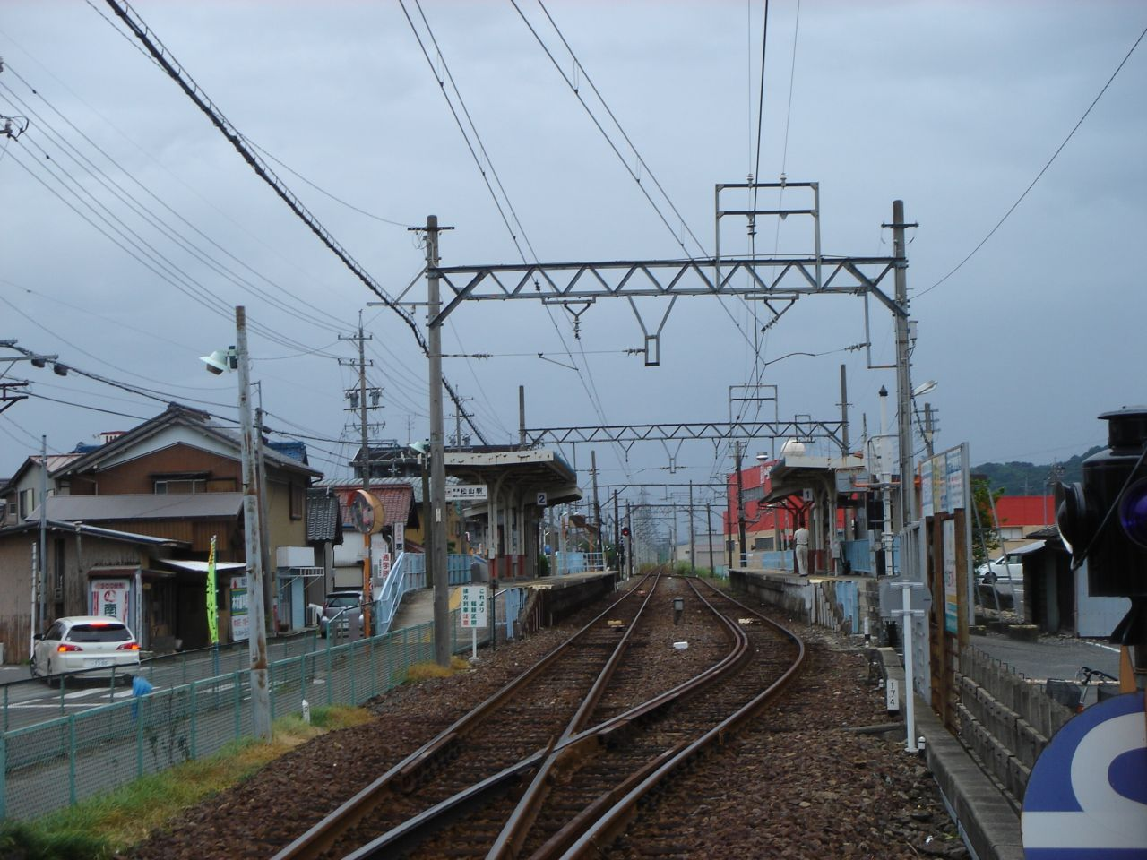 Mino-Matsuyama Station in Gifu Prefecture.（美濃松山駅）,Kaizu,Gifu,Japan(岐阜県海津市)で撮影。